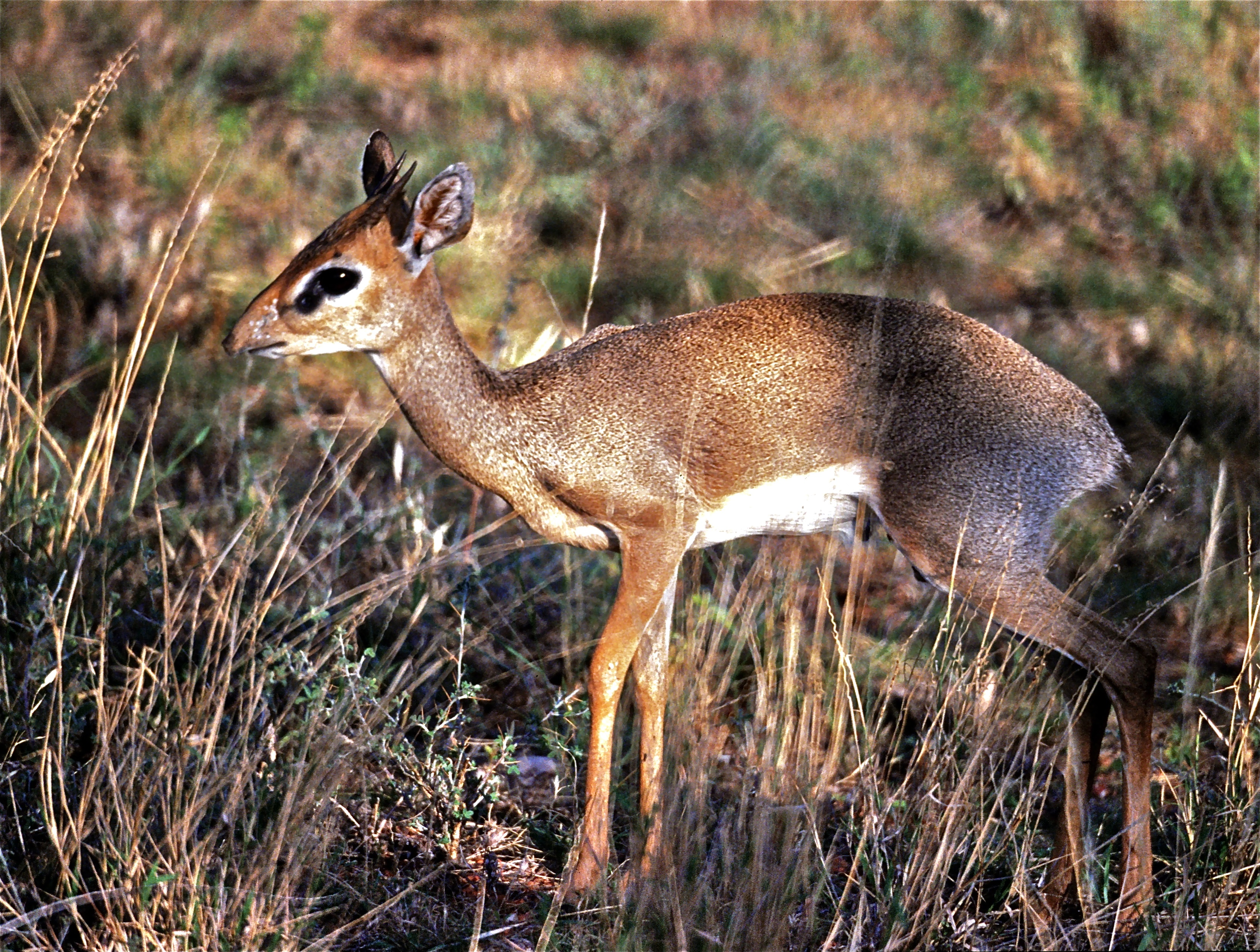 Samburu National Reserve, KENYA Scanned slide from 2004